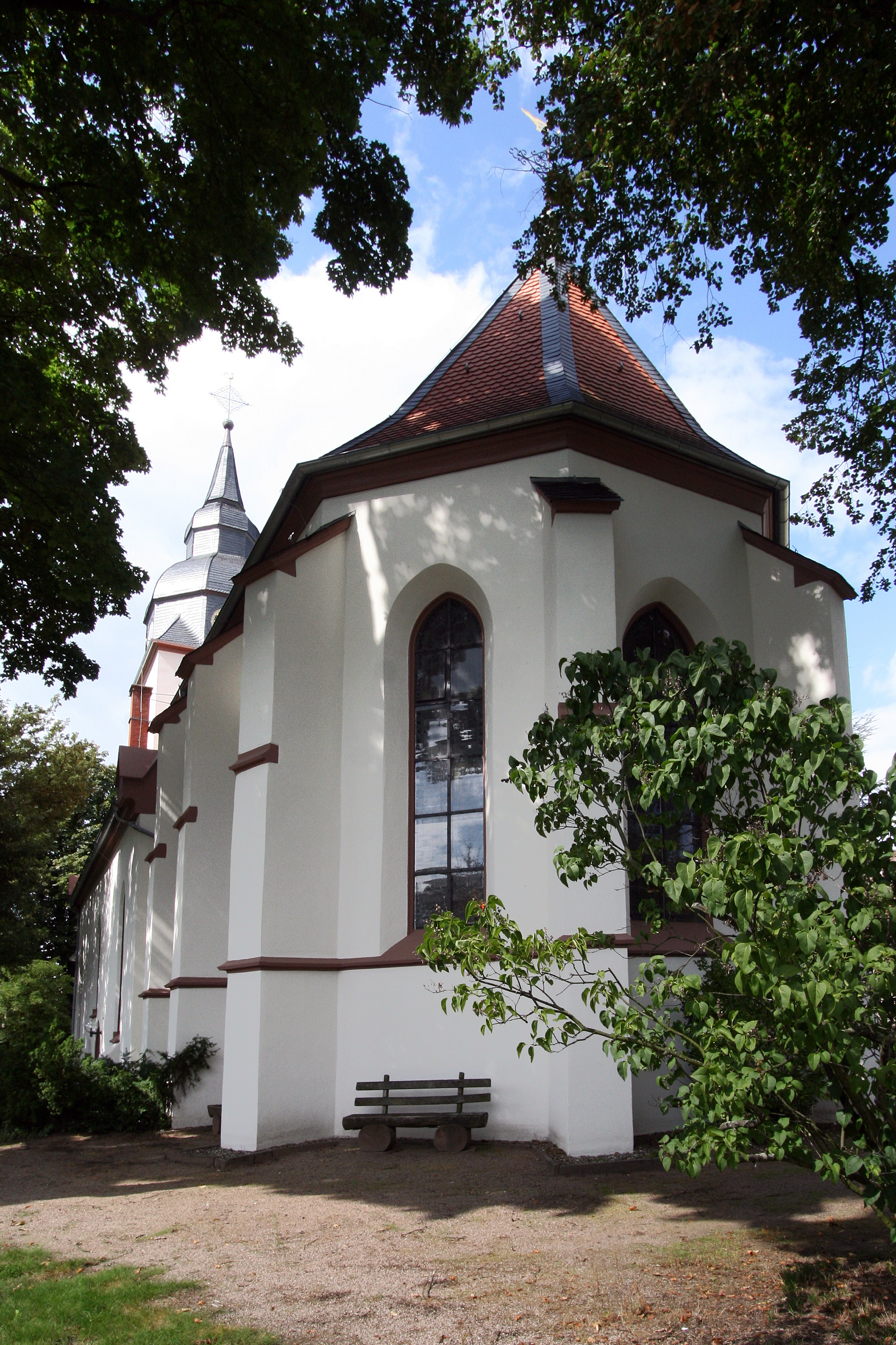 Church of the Resurrection of Christ in Arheilgen, a district of Darmstadt, Germany